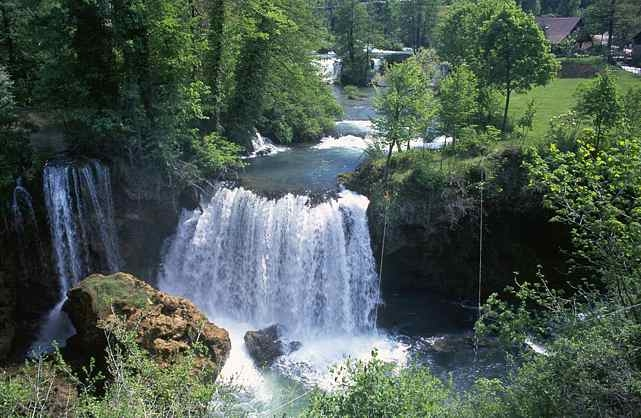 Rastoke, Slunj, Croatia. Uploaded by user Neoneo13 for Wikipedia.